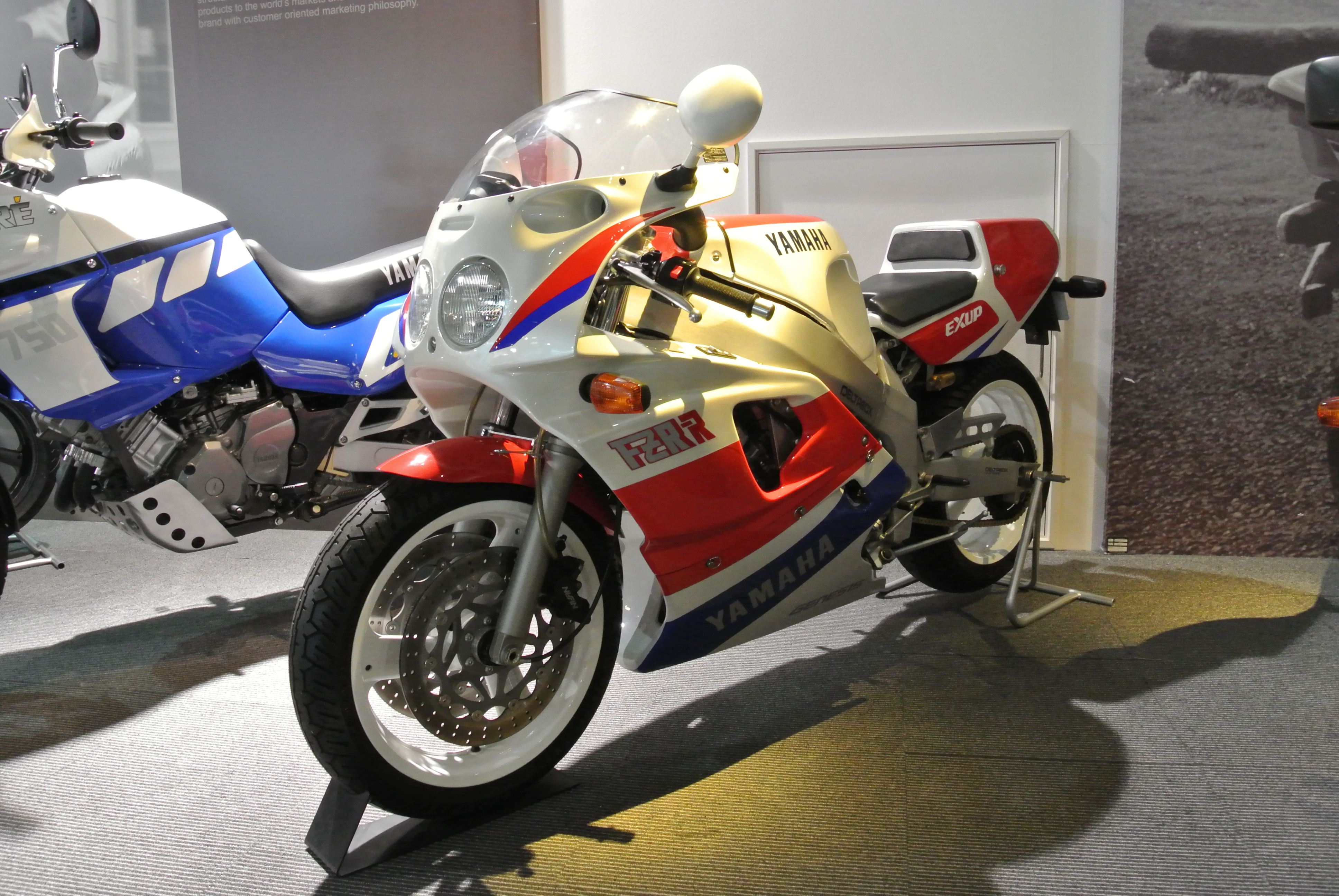 1989 Yamaha FZR750R (OW01) in the Yamaha Communication Plaza.